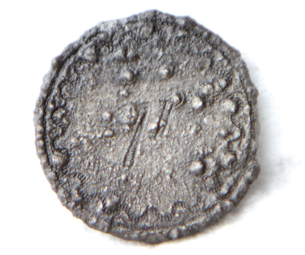 A pewter button from a non-officer member of Britain's 71st Regiment of Foot, popularly known as "Fraser's Highlanders." This regiment was raised in Scotland in 1775 to fight in the American Revolution. This button was discovered in 2012 during underwater archaeological excavations of the Storm Wreck, off the coast of St. Augustine, Florida, by archaeologists working for LAMP (Lighthouse Archaeological Maritime Program), the research arm of the St. Augustine Lighthouse & Museum. The Storm Wreck is a colonial era shipwreck believed to have been part of the last fleet of Loyalist Refugees and British troops to evacuate Charleston on 18 December 1782. The button was cleaned by electrolytic reduction at the LAMP conservation laboratory. Photograph should be attributed to Lighthouse Archaeological Maritime Program.